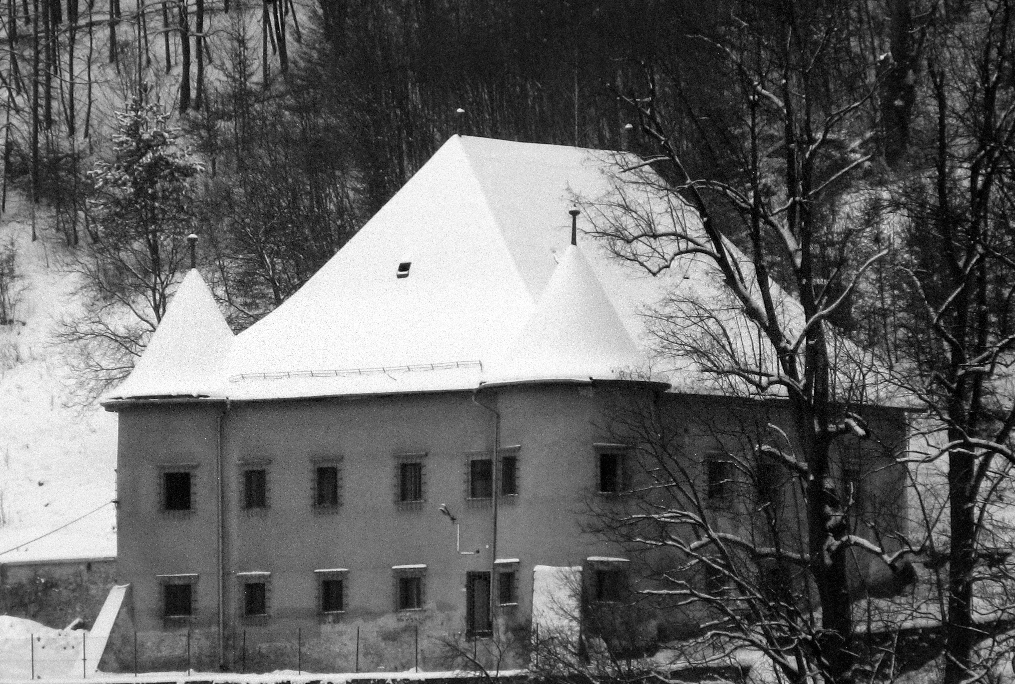 Kastiel under the castle Bystrica